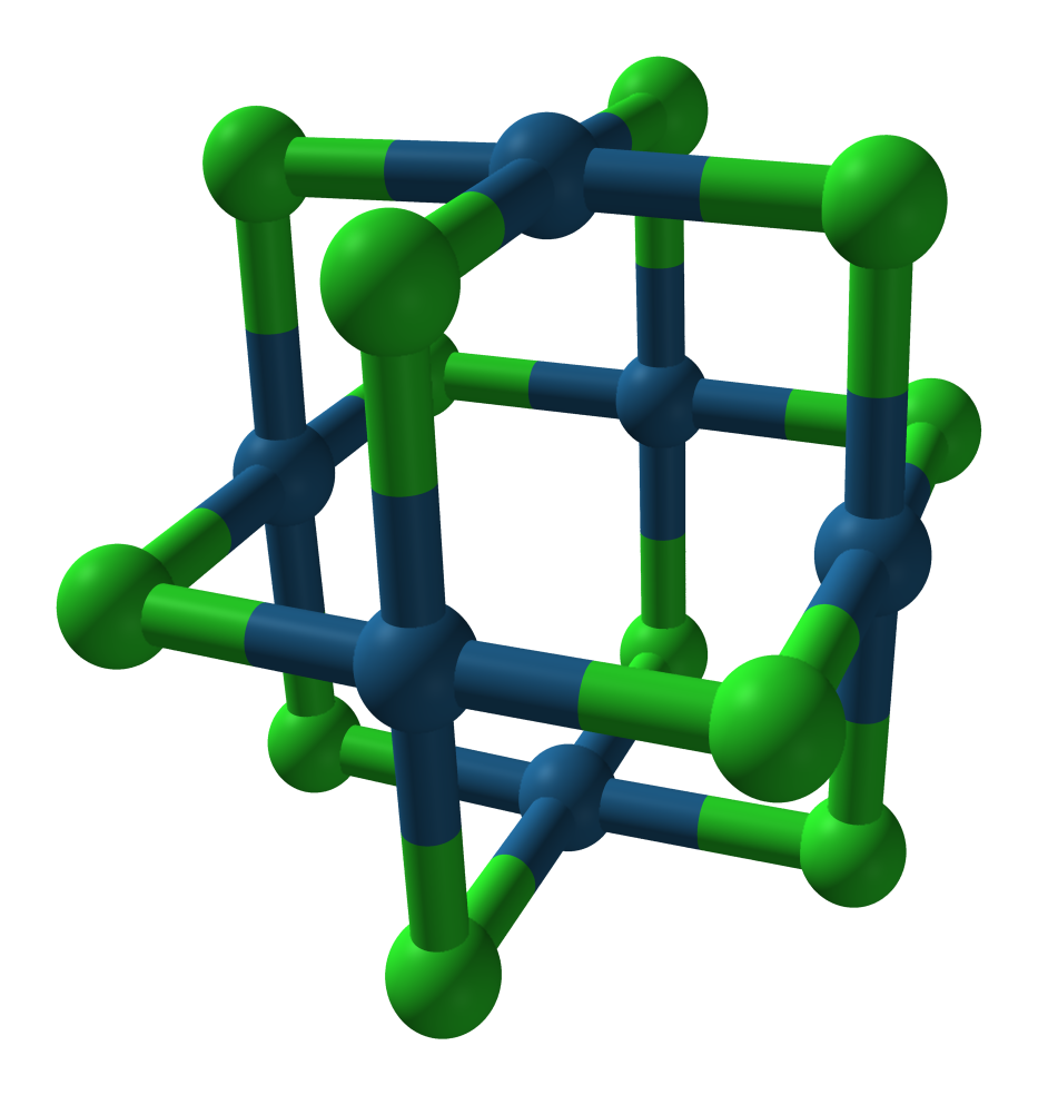 Ball-and-stick model of the β-platinum(II) chloride molecule, Pt6Cl12, from the crystal structure. Structural data from Zeitschrift für Anorganische und Allgemeine Chemie, 2003, 629, 516-522.